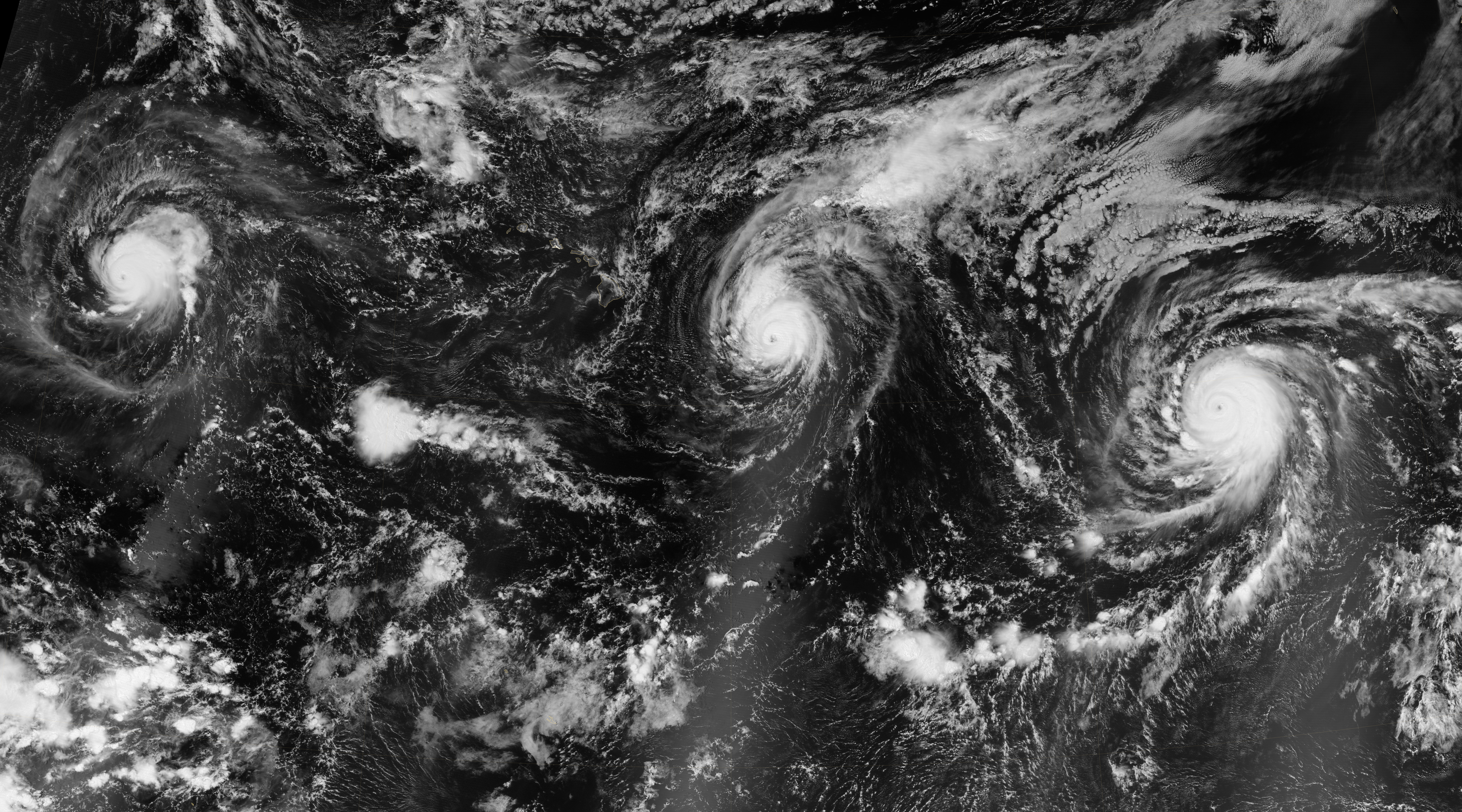 Hurricanes traversing the Pacific Ocean are often solitary storms. Occasionally they show up in pairs. But according to meteorologists, August 2015 marked the first time in recorded history that three Category 4 storms simultaneously paraded over the central and eastern Pacific. The top image shows a nighttime view of hurricanes Kilo, Ignacio, and Jimena (from west to east). The image is a mosaic, based on data collected during three orbital passes of the Visible Infrared Imaging Radiometer Suite (VIIRS) on the Suomi-NPP satellite. The VIIRS “day-night band” detects light in a range of wavelengths from green to near-infrared, and uses light intensification to enable the detection of dim signals. Moonlight from a full Moon was favorable for these nighttime images, acquired between 11:30 p.m. and 3 a.m. Hawaii Standard Time on August 29-30 (09:30 and 13:00 Universal Time on August 30). At the time, all three hurricanes were Category 4 storms—the second-highest ranking on the Saffir-Simpson Hurricane Wind Scale. Hurricane Kilo had maximum sustained winds of 215 kilometers (135 miles) per hour, according to an advisory issued by the Central Pacific Hurricane Center. The storm moved toward the north-northwest, and posed no hazards to land. Meanwhile, Hurricane Ignacio had similar sustained wind speeds that measured 220 kilometers (140 miles) per hour; this storm, however, was closer to the Big Island’s mainland and had the potential to produce damaging and life-threatening surf. Huricane Jimena, the easternmost of the three storms, carried maximum sustained winds of about 210 kilometers (130 miles) per hour, according to an advisory issued by the National Hurricane Center.